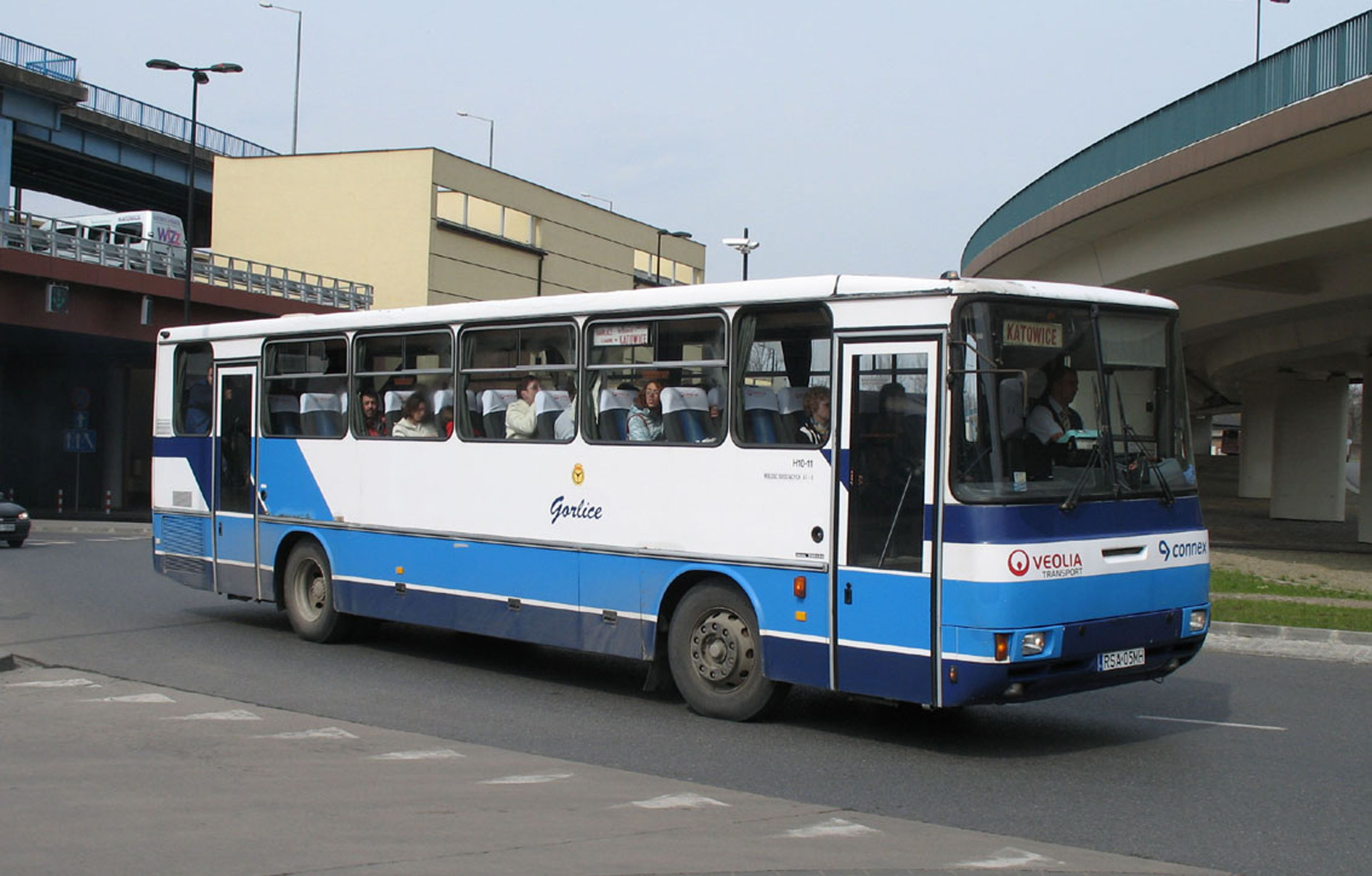 Autosan H10-11.21 intercity bus (reg. RSA 05MH) in Kraków, Poland. Built 2000, Veolia Transport Bieszczady operator.